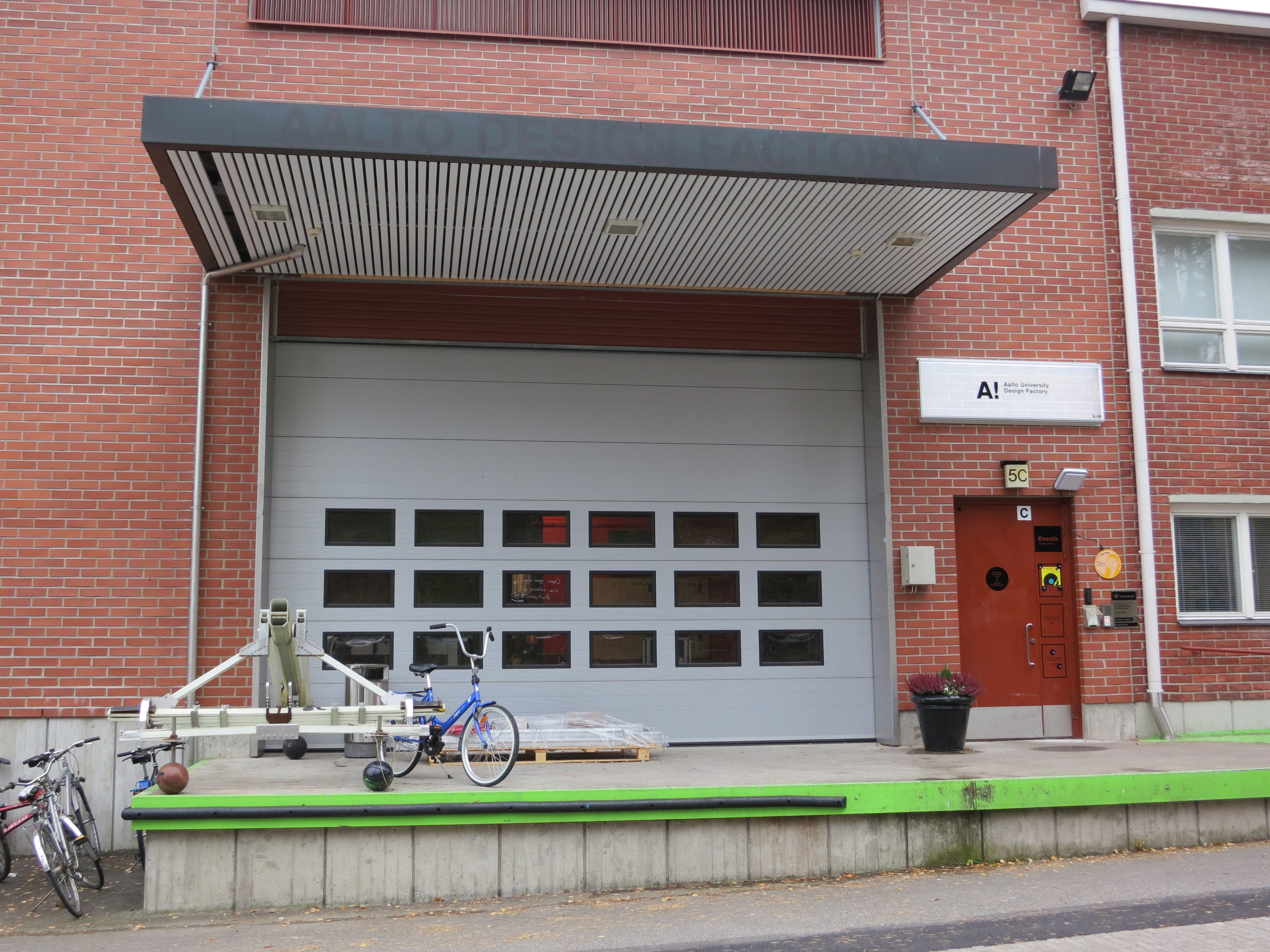 Aalto University Design Factory in Otaniemi, Espoo. October 2013.